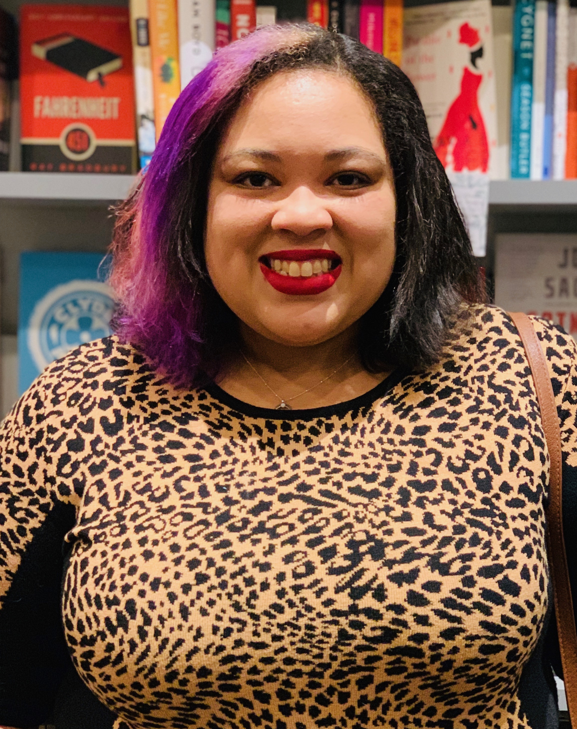 Author Danielle Evans at a book reading at Bird and Hand on Jan. 28, 2020